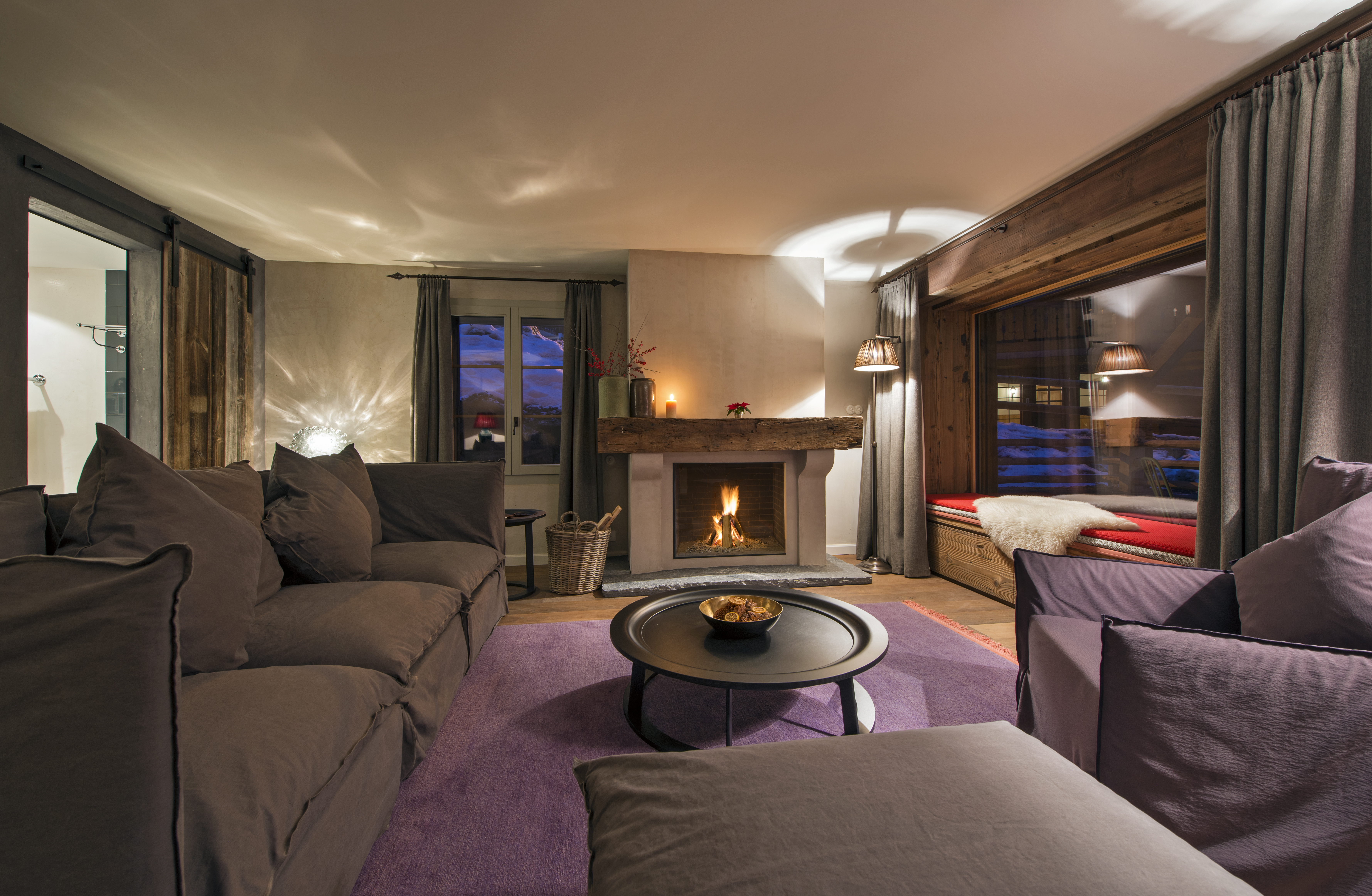 Living area of a Prestige Suite at Hotel La Cordée des Alpes